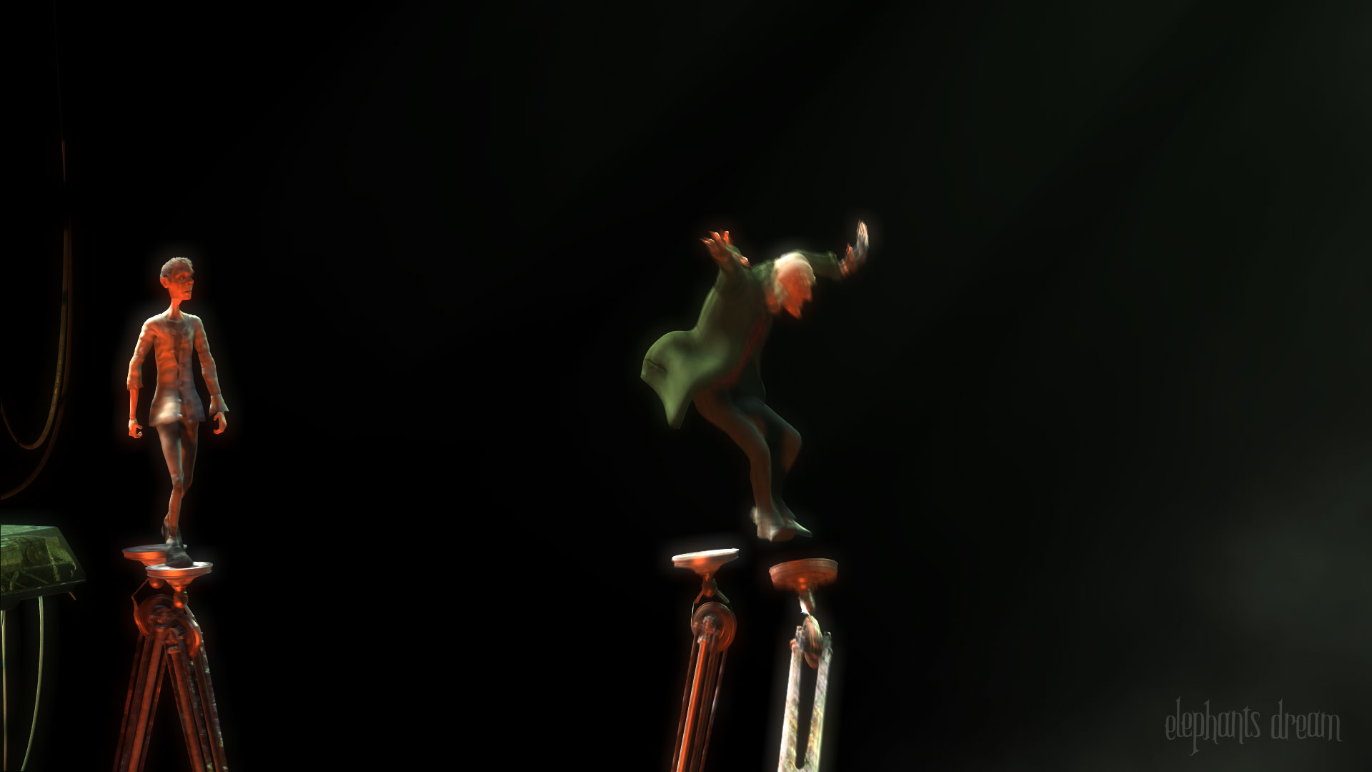 Image from the film Elephants Dream.